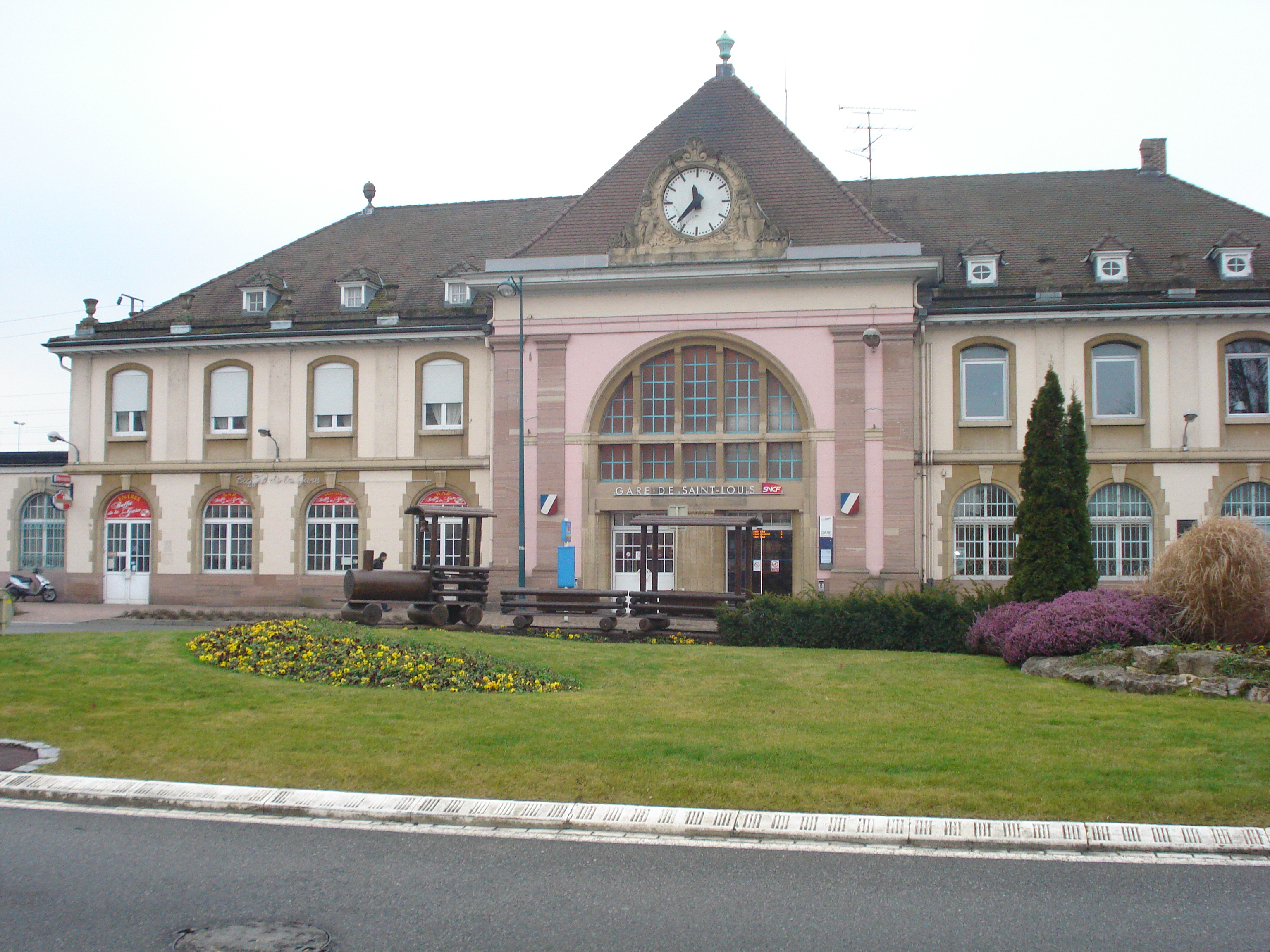 Front of the Gare of Saint-Louis